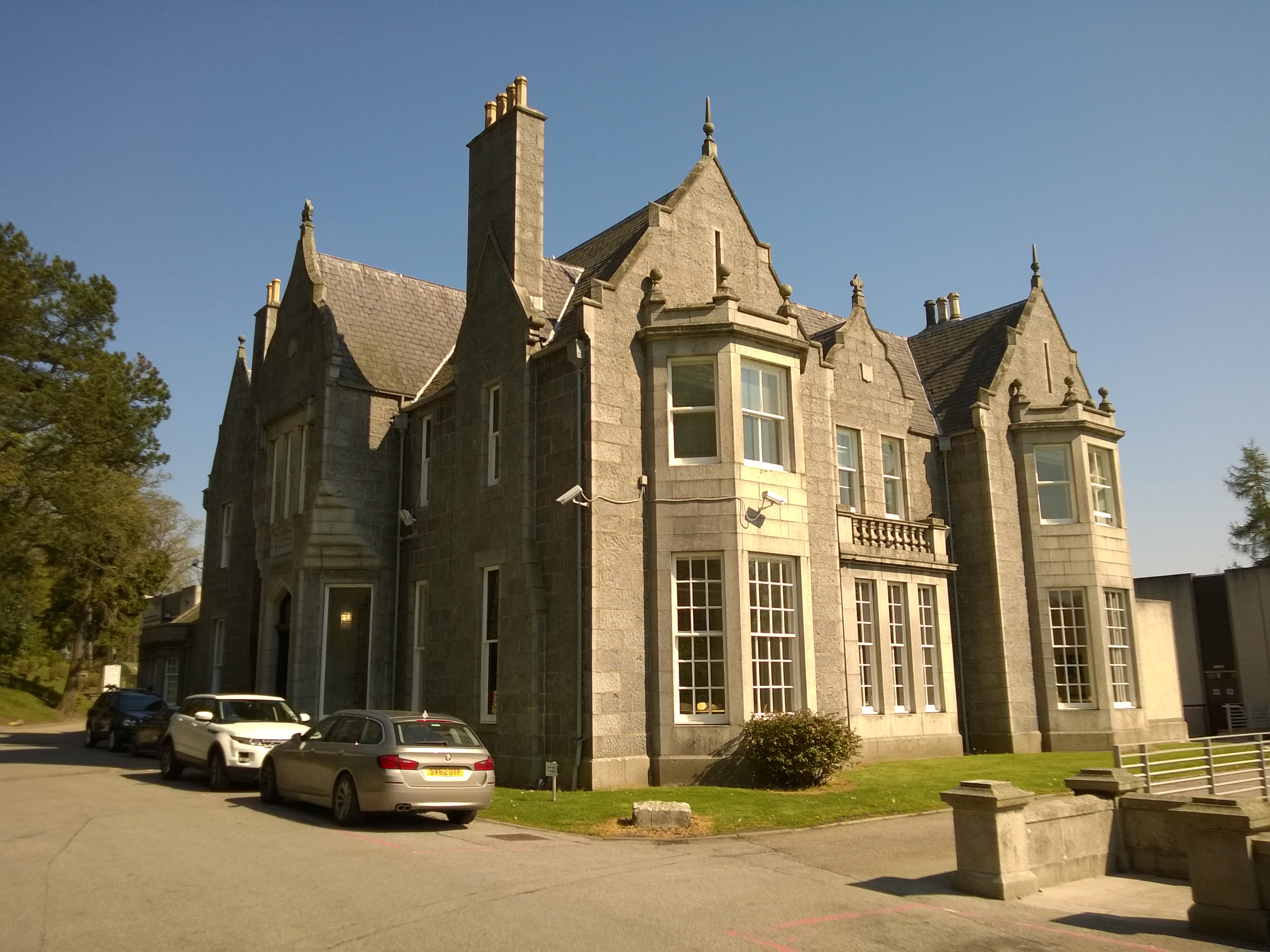 The Robert Gordon University, Aberdeen, Scotland: Garthdee House shown here houses the Principal's Office. This manor house was the centre of the Garthdee estate donated by Tom Scott Sutherland in the 1950s which, with additional purchases of adjacent land, became the Garthdee campus today.